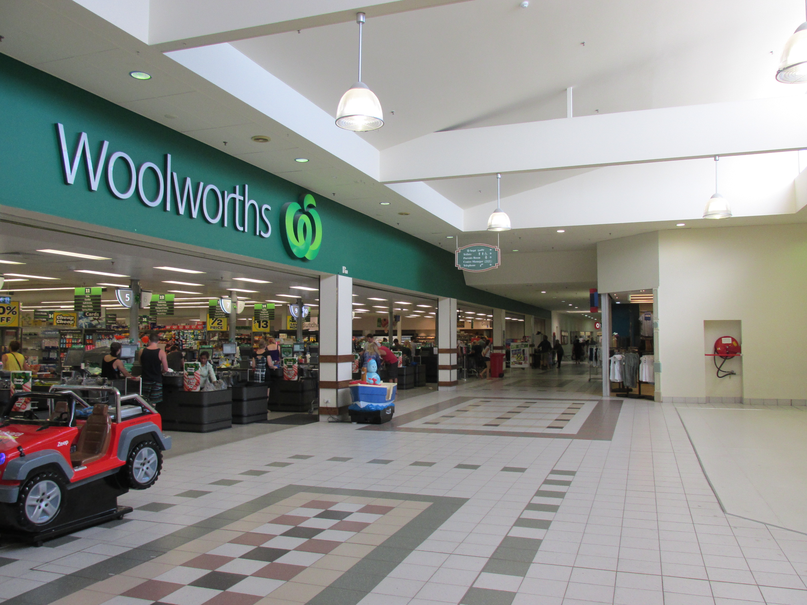 Woolworths supermarket inside Esperance Boulevard shopping centre, Esperance, Western Australia